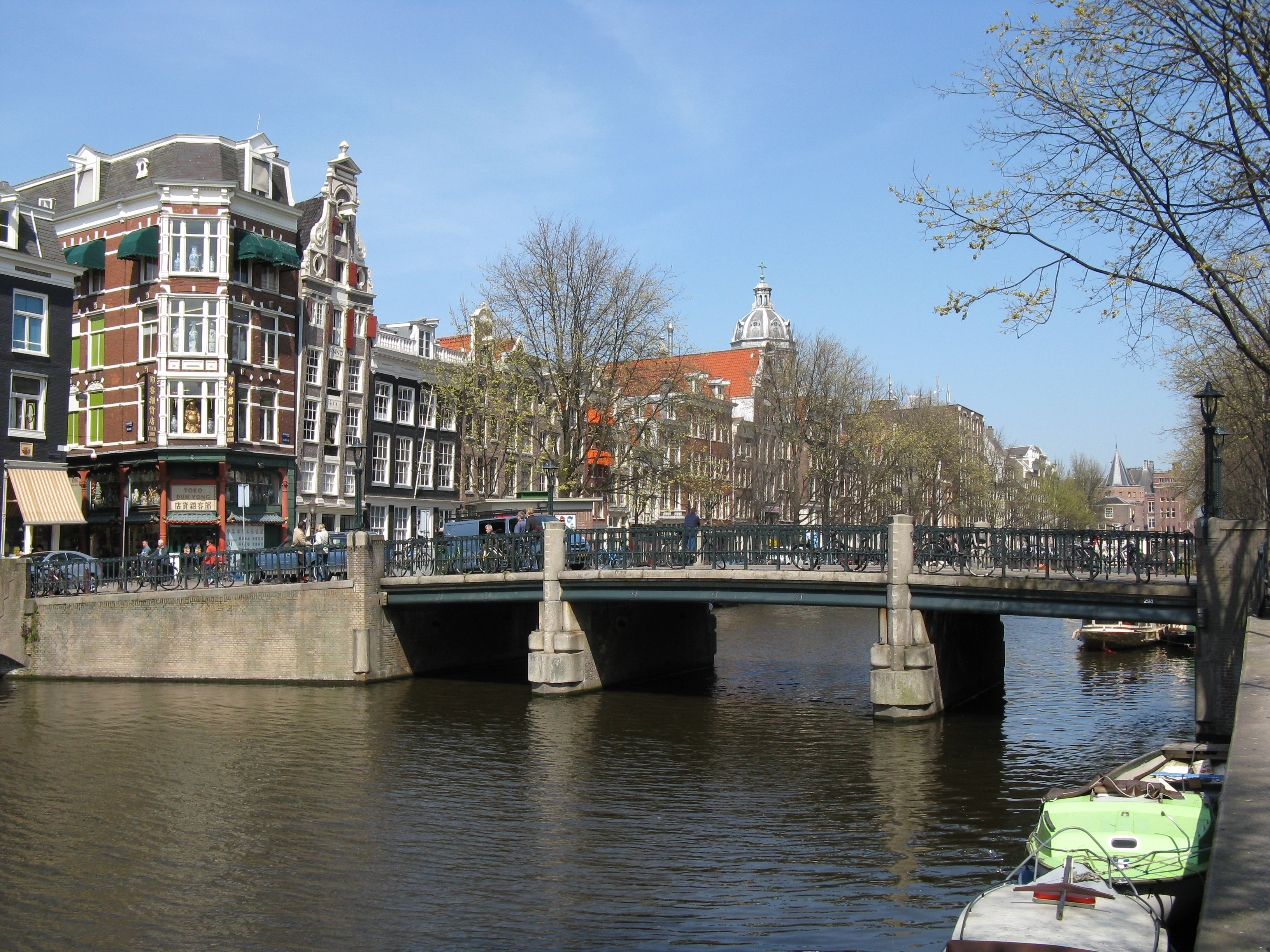 Amsterdam